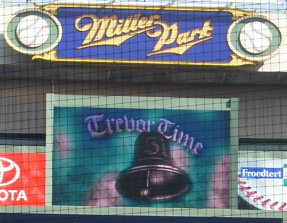 Miller Park video screen during "Trevor Time"